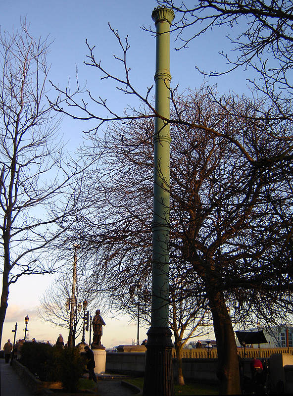 Arc light column, Cheyne Walk, Chelsea, London, by nothern side of Battersea Bridge. Statue of James McNeill Whistler in background. 21 January 2006. Photographer: Fin Fahey. This is actually a sewer ventilation stack cast by J Stone – Engineers of Deptford (East London), probably around 1870.